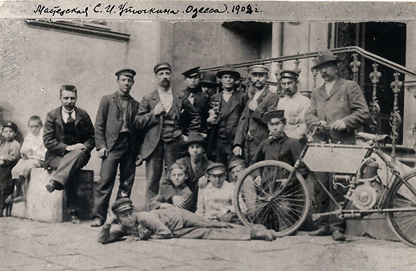 Utochkin_M